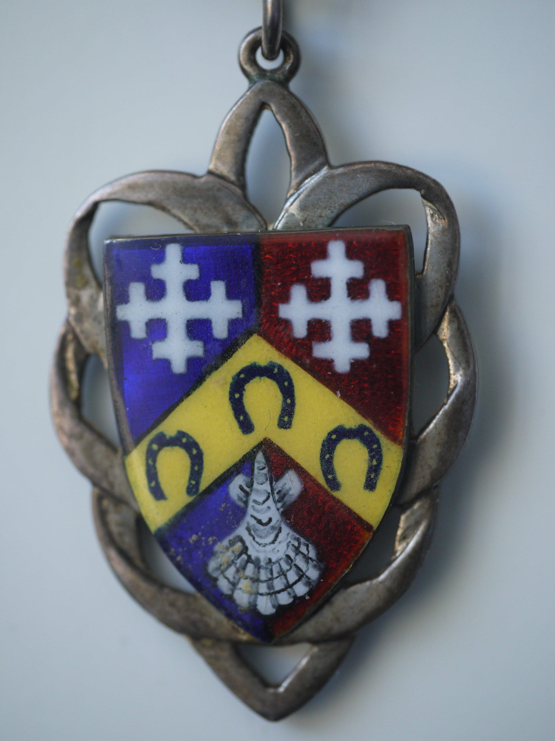 medal awarded to "Josephine Mountier last deputy mayoress of the Meropolitan borough of Hammersmith"